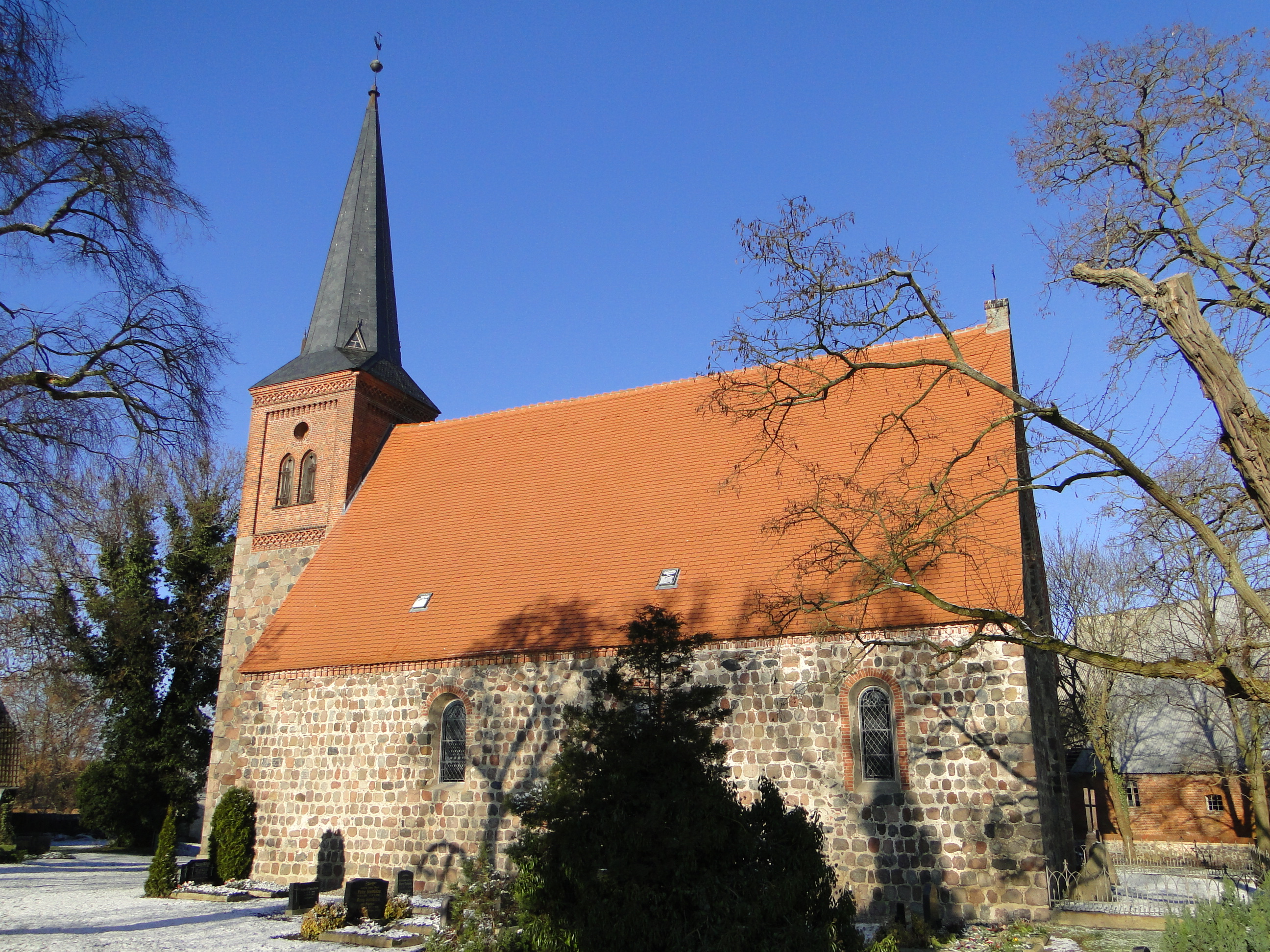 Church in Beseritz, district Mecklenburg-Strelitz, Mecklenburg-Vorpommern, Germany